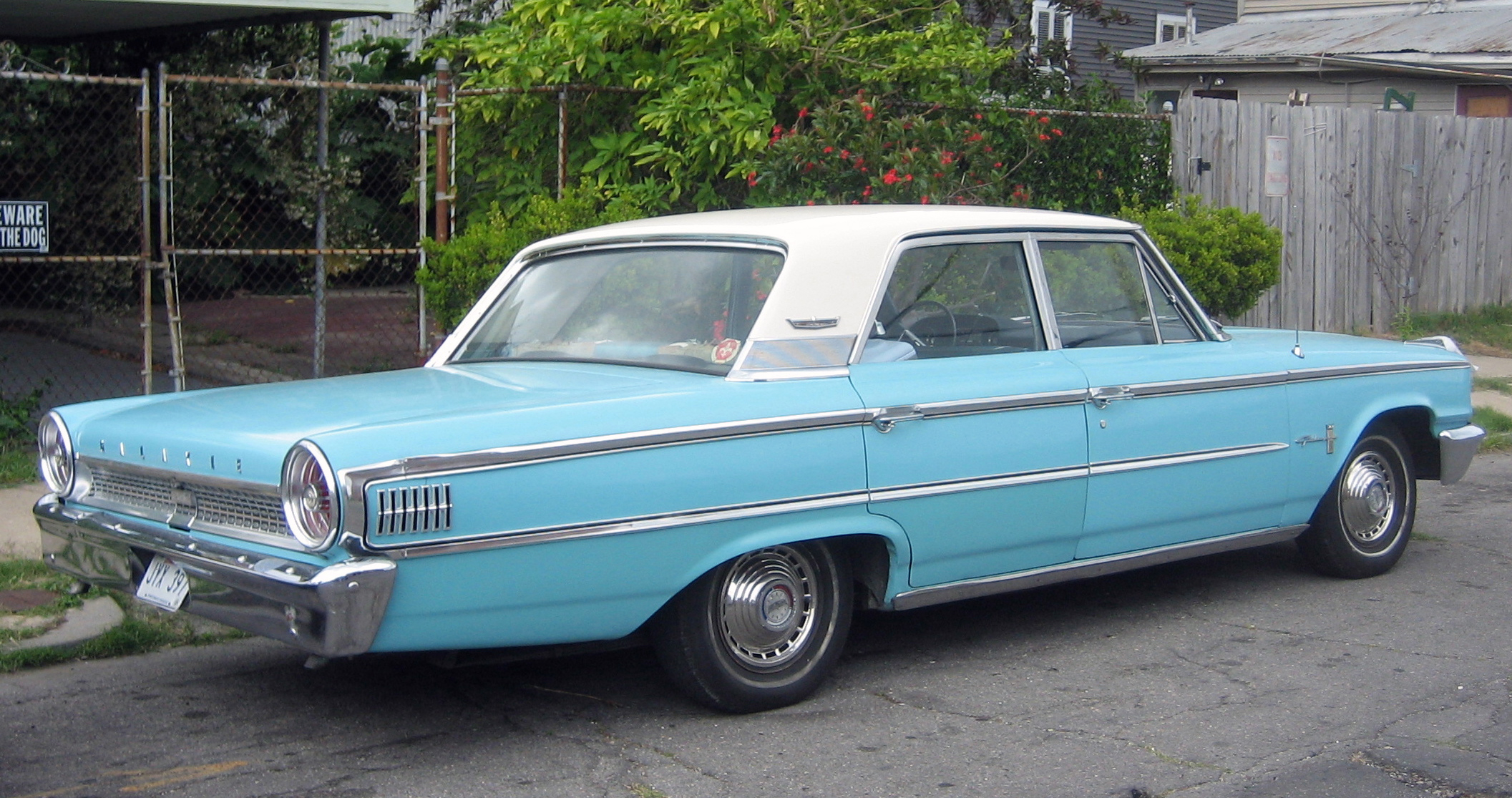 1963 Ford Galaxie seen on street in New Orleans